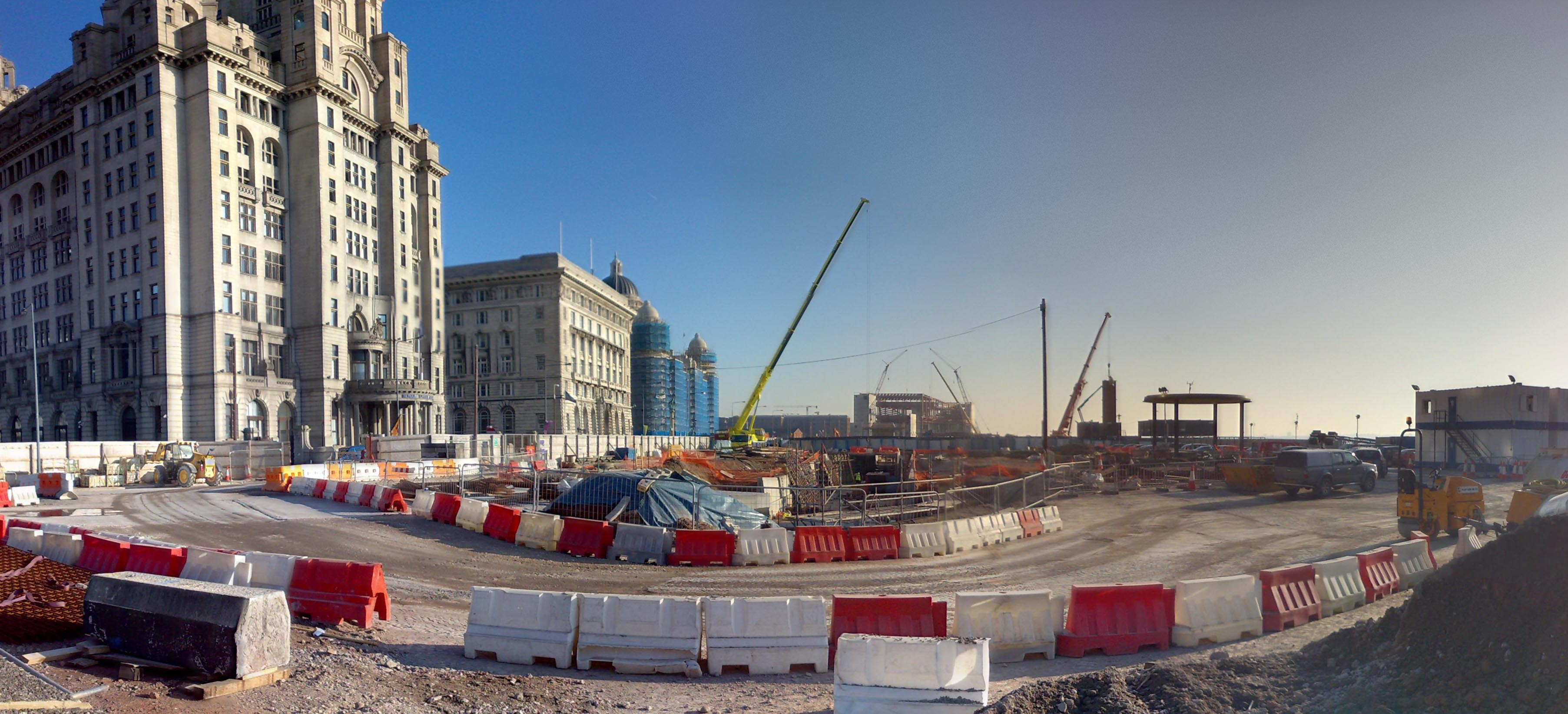 The new canal link near the Liver Building, looking south.